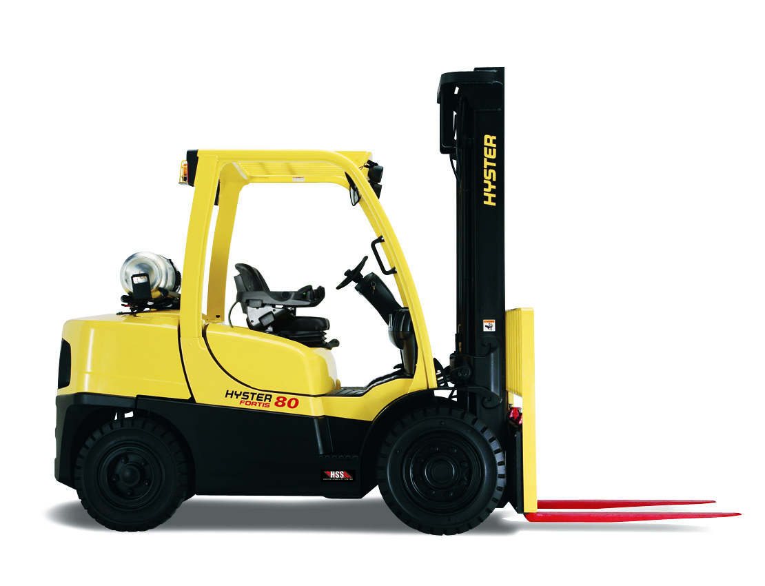 Hyster H80FT Fortis Model. Part of the Fortis series.